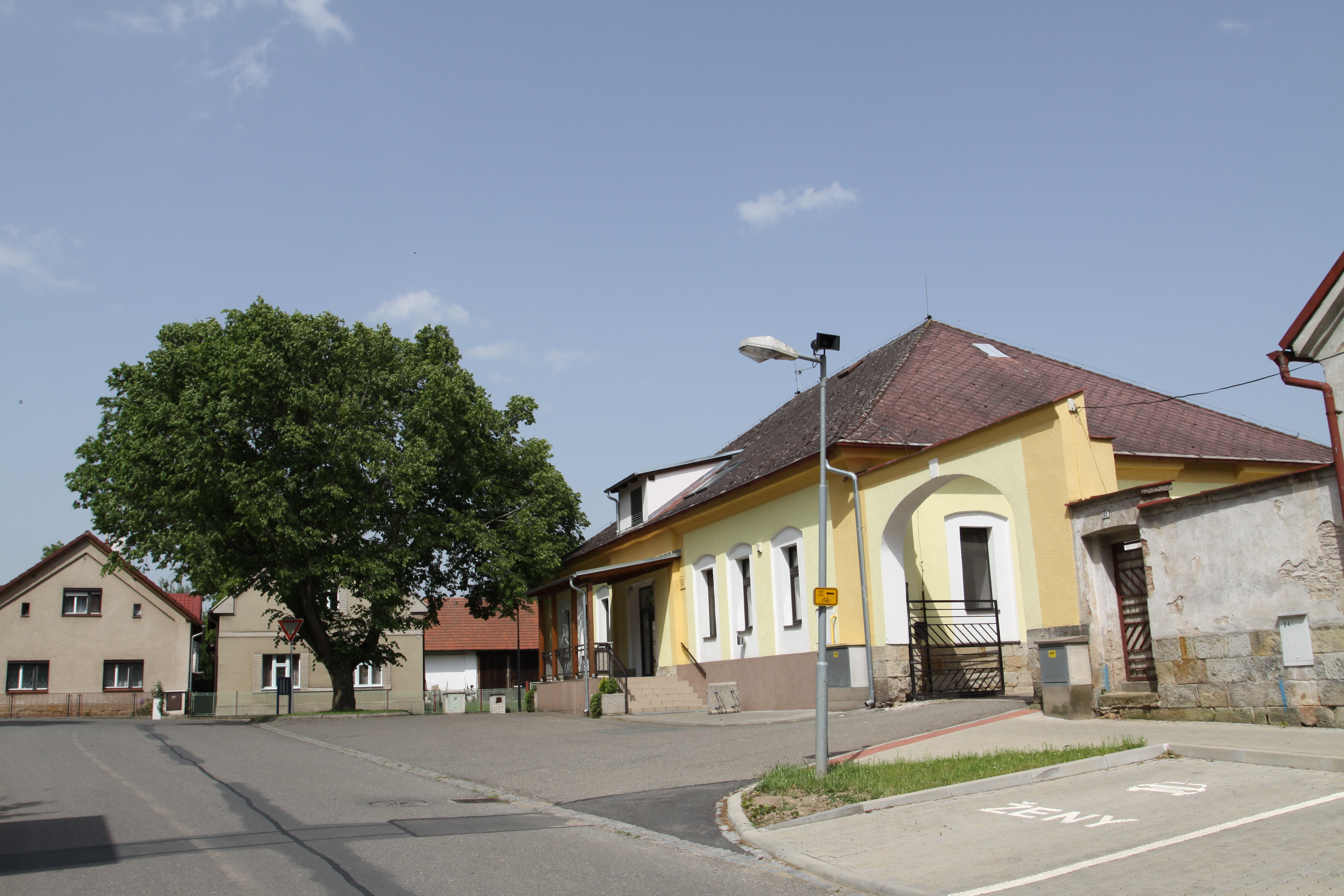 Holohlavy village in Hradec Králové District, Czech Republic. - Google Maps - Google Earth